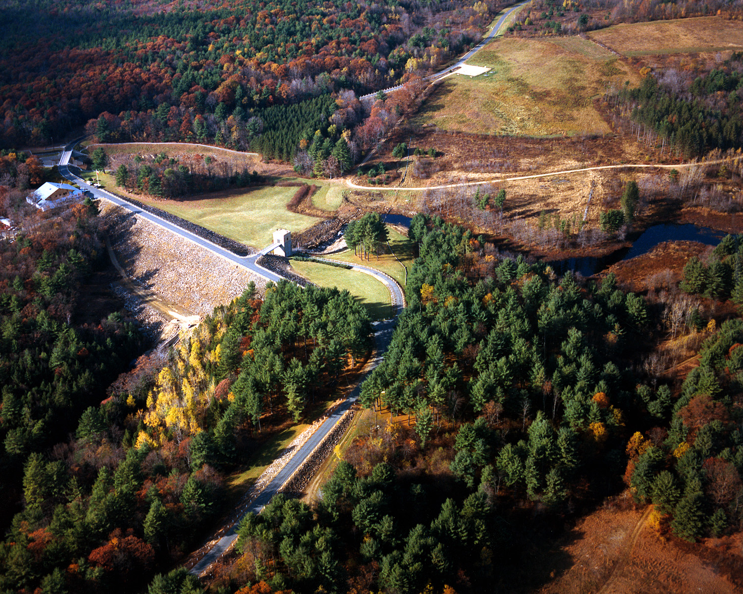 Aerial view of Barre Falls Dam on the Ware River in Hubbardston, Massachusetts, USA. The dam was constructed in 1958 by the U.S. Army Corps of Engineers to control flooding along the Ware, Chicopee, and Connecticut rivers